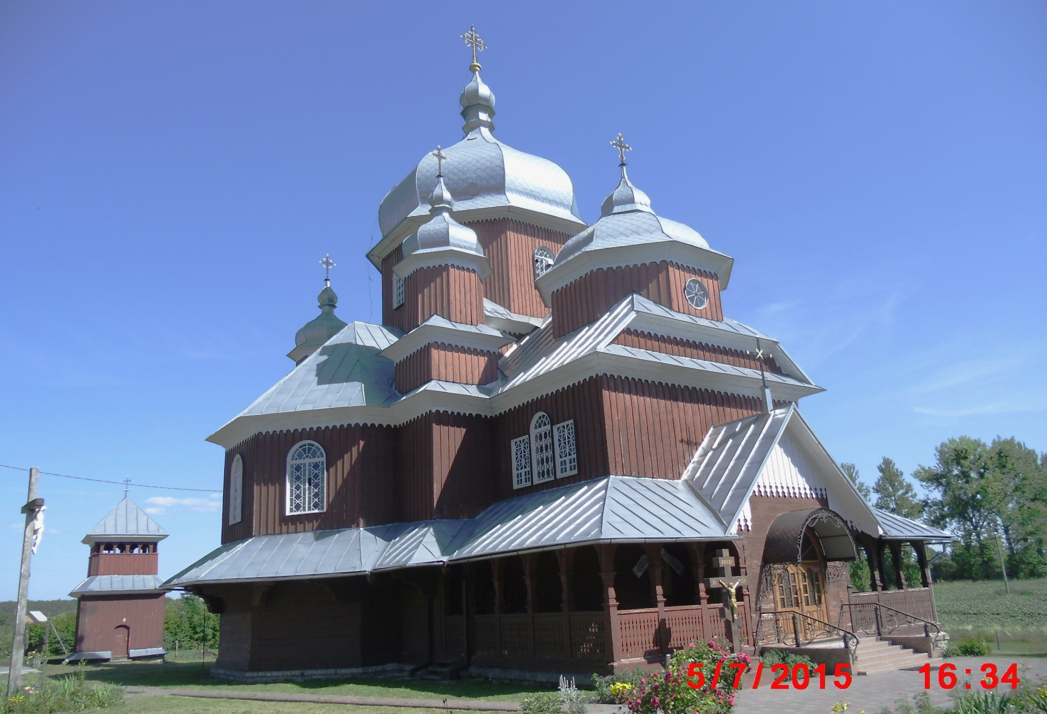 St. Archangel Michael wooden church in the village Humnyska, Busk Raion was built and dedicated in 1928. Listed in the List of wooden churches of Lviv region.